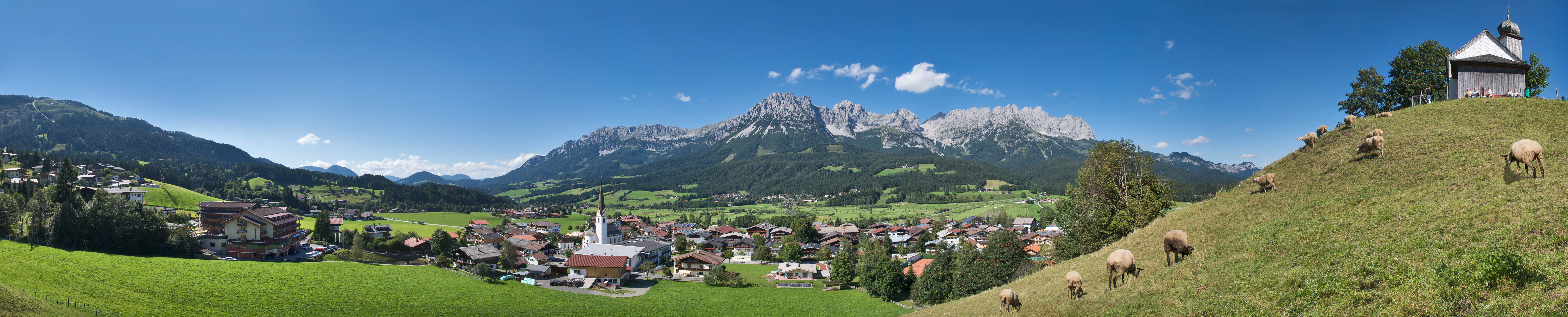 Panoramic view of Ellmau including the Visitation chapel to the right – a local landmark. The mountains behind the village belong to the Kaiser mountain range and are known as Wilder Kaiser (south face here).